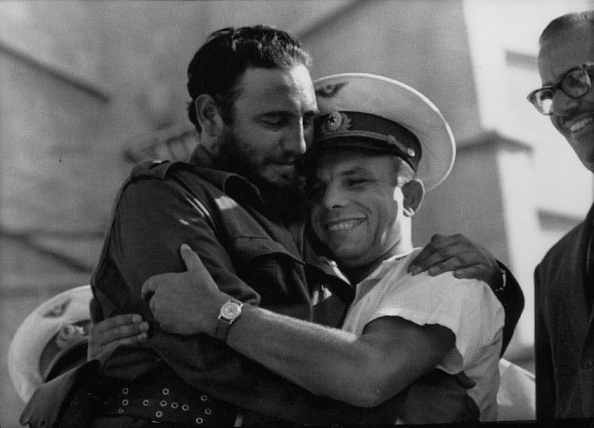 Fidel Castro meets cosmonaut Yuri Gagarin.